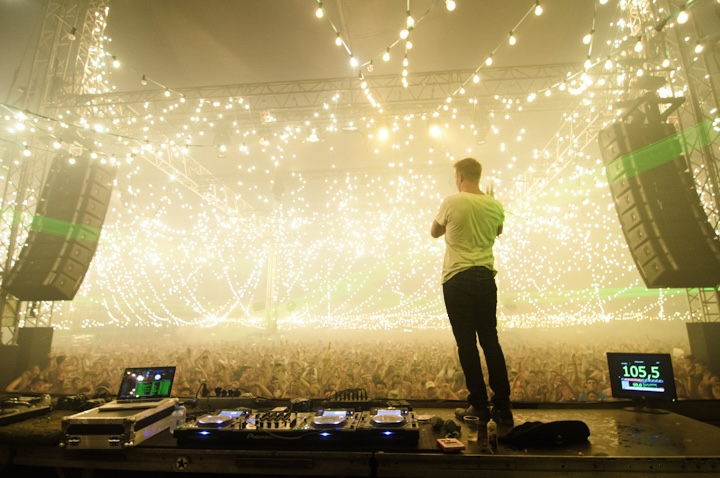 Diplo - Pukkelpop festival (Belgium) 2012